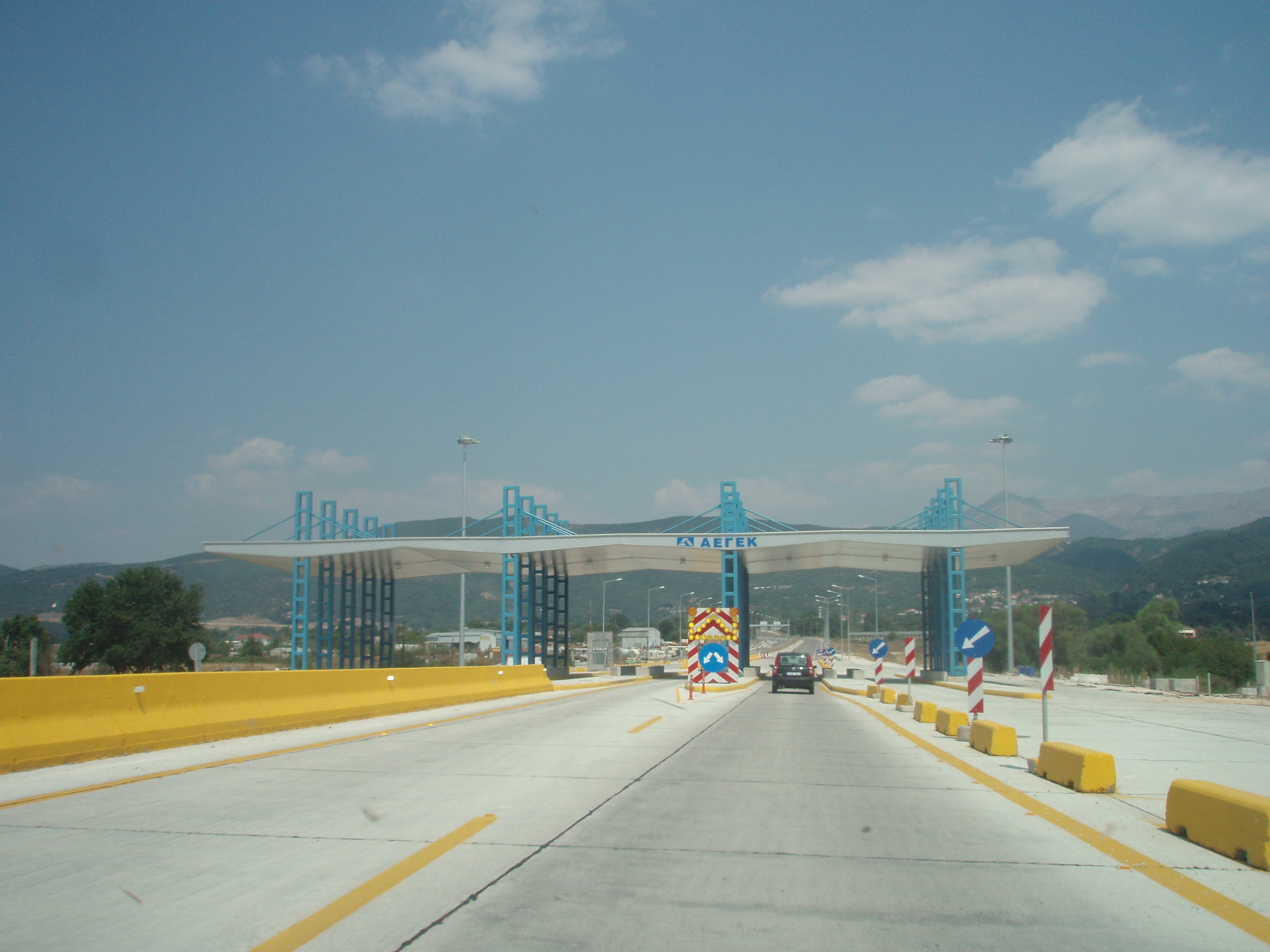 A2 motorway (Egnatia Odos), Greece. Section Ioannina-Metsovo. Toll station Ioannina between exits Pamvotida and Arachthos/Zagoria (before Driskos Tunnel western entry). Not functional in November 2009.